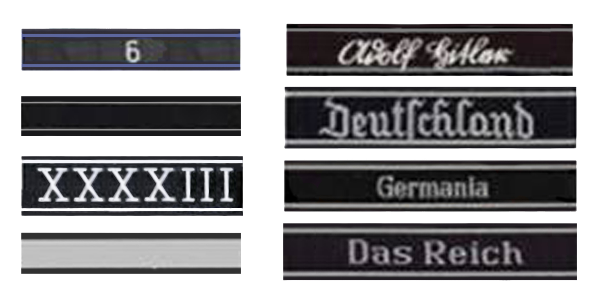 Collection of SS cuffbands from 1935